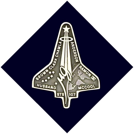 Photo I took of the Robbins Medallion for STS107 Please acknowledge "Phil Konstantin" as the creator of this photograph.